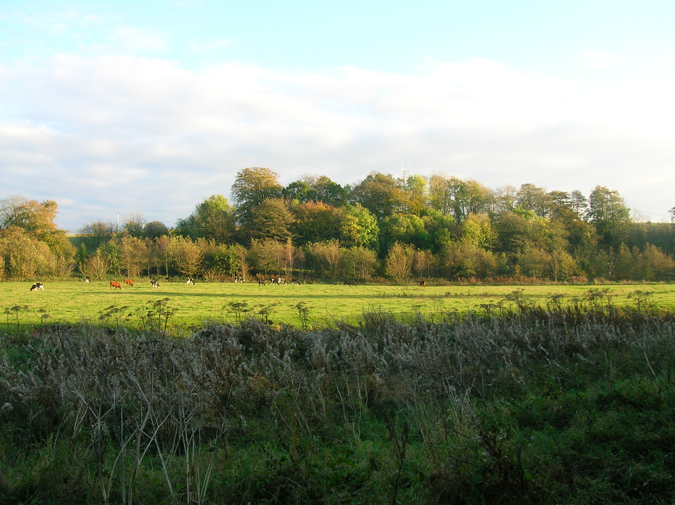 Peter's brae woodland, Stewarton, East Ayrshire, Scotland.